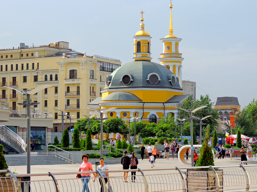 Kyiv2018